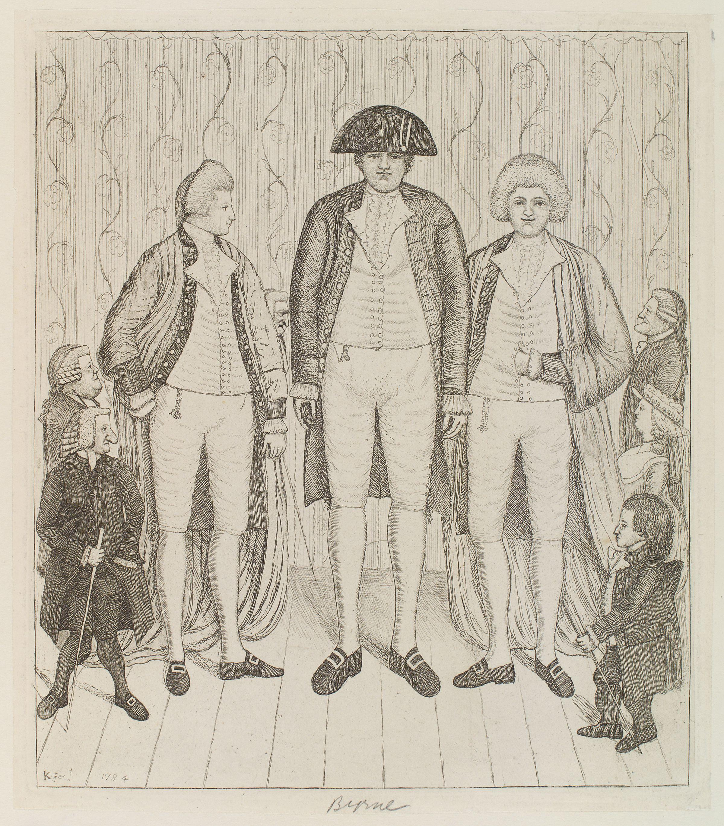 Charles Byrne; James Burnett, Lord Monboddo; William Richardson; John Bell; Baillie Kyd, by John Kay (died 1826). All images in this batch have been confirmed as author died before 1939 according to the official death date listed by the NPG.